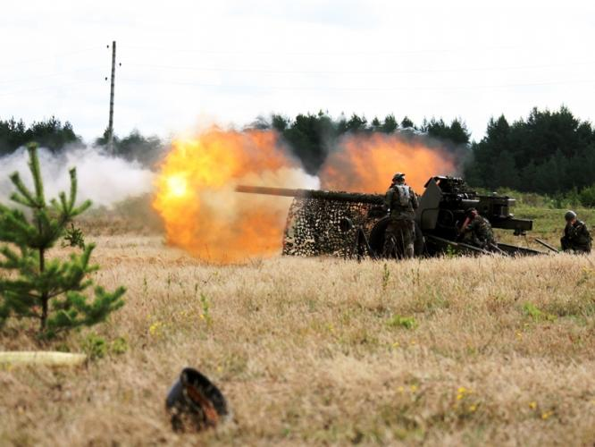 Zemessardze firing artillery in summer exercises.